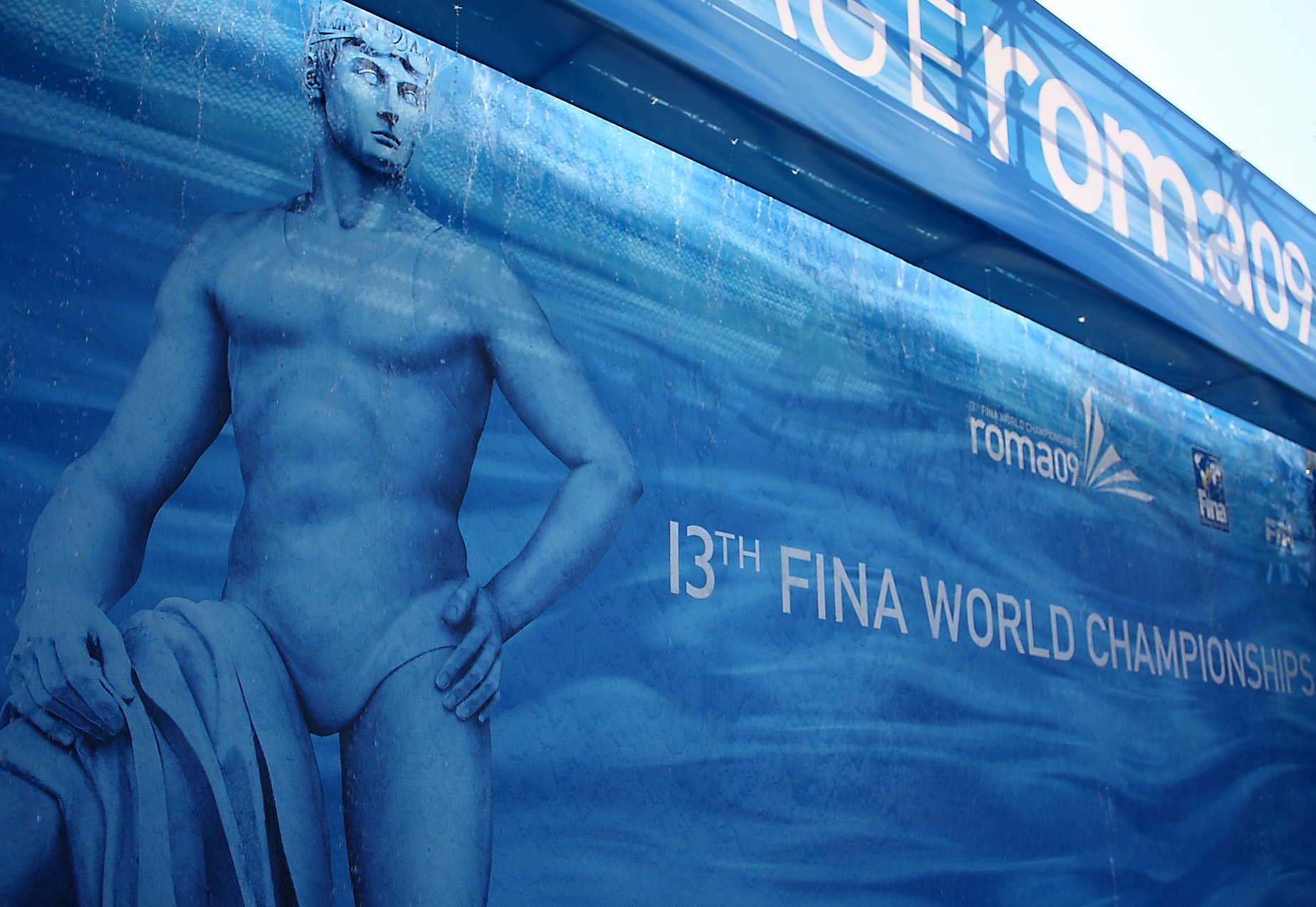 Roma09 Banner.